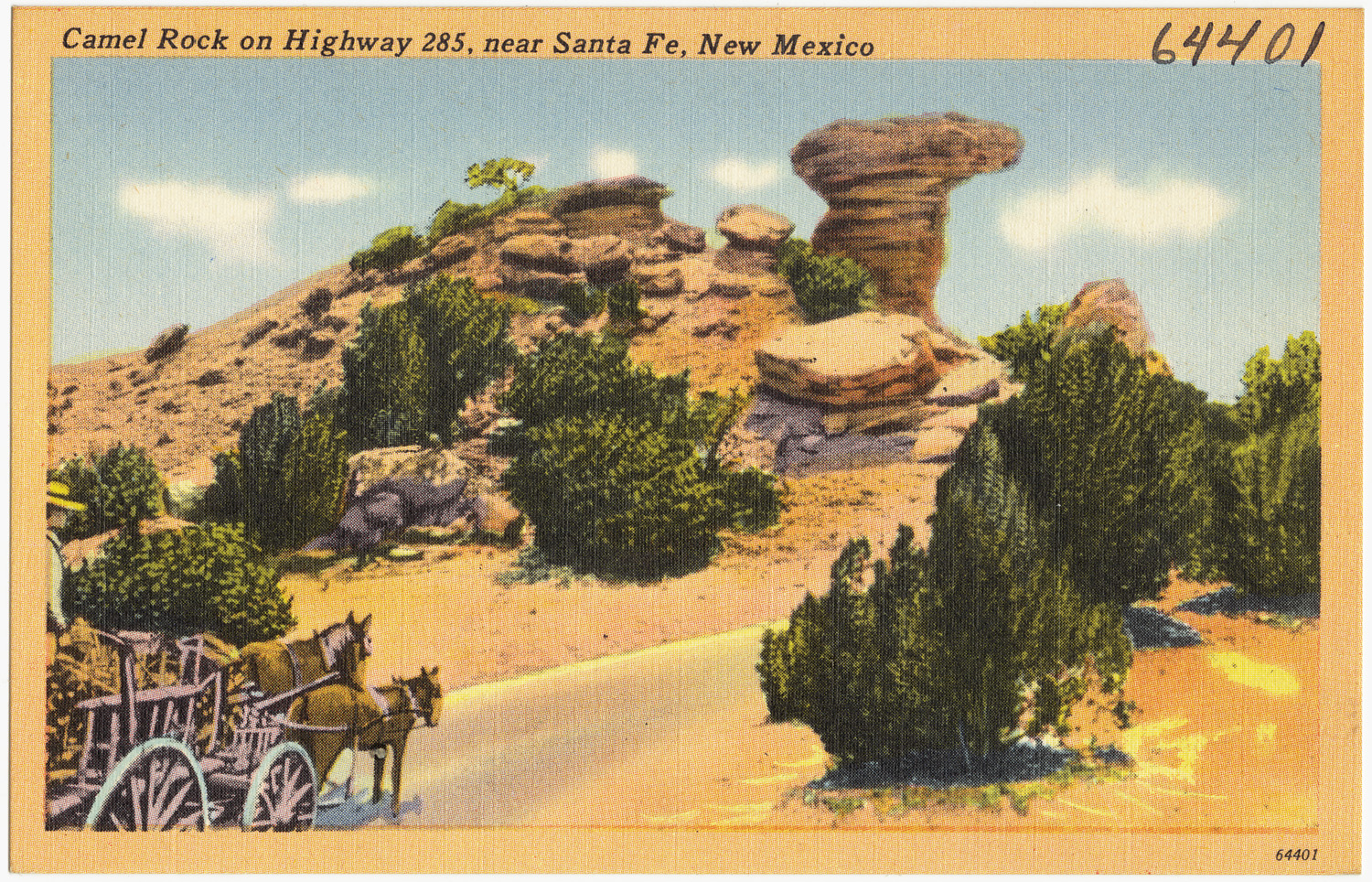 File name: 06_10_015667 Title: Camel Rock on Highway 285, near Santa Fe, New Mexico Created/Published: Alfred Mc Garr Adv. Ser., Albuquerque, N. M. Date issued: 1930 - 1945 (approximate) Physical description: 1 print (postcard) : linen texture, color ; 3 1/2 x 5 1/2 in. Genre: Postcards Notes: Collection: The Tichnor Brothers Collection Location: Boston Public Library, Print Department Rights: No known restrictions Flickr data on 2011-08-17: Camera: Epson Exp10000XL10000 Tags: postcard, tichnor brothers, New Mexico License: CC BY 2.0 User: Boston Public Library